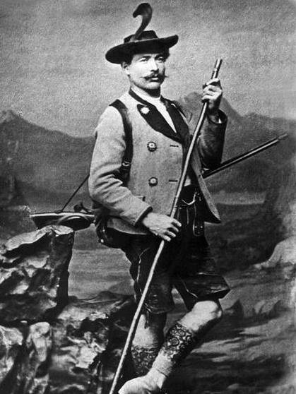 Georg Jennerwein - Bavarian poacher and folk hero